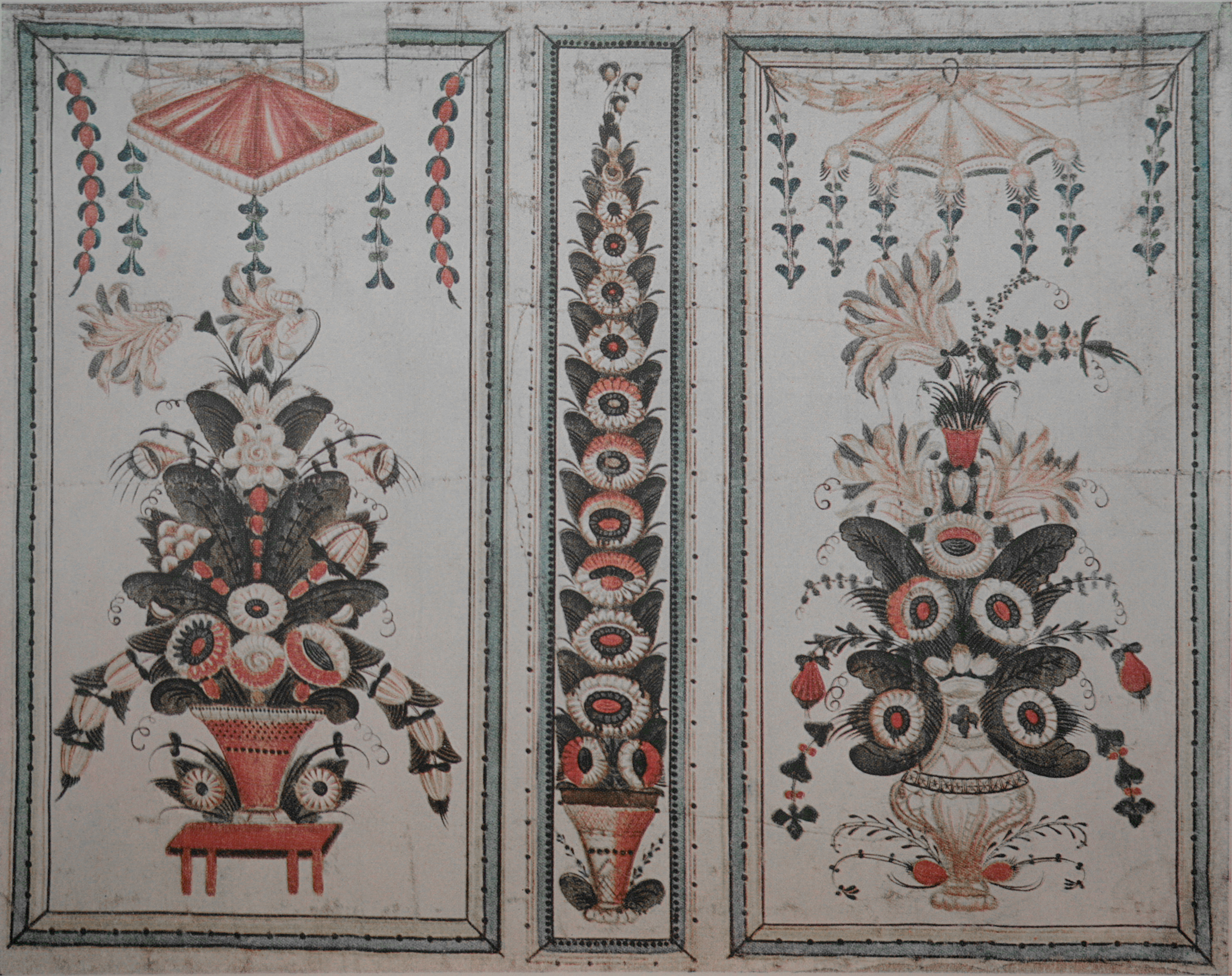 Dalecarlian wallpainting made of Björ Anders Hansson 1805, Signed "drängen AHS", this is repro from book